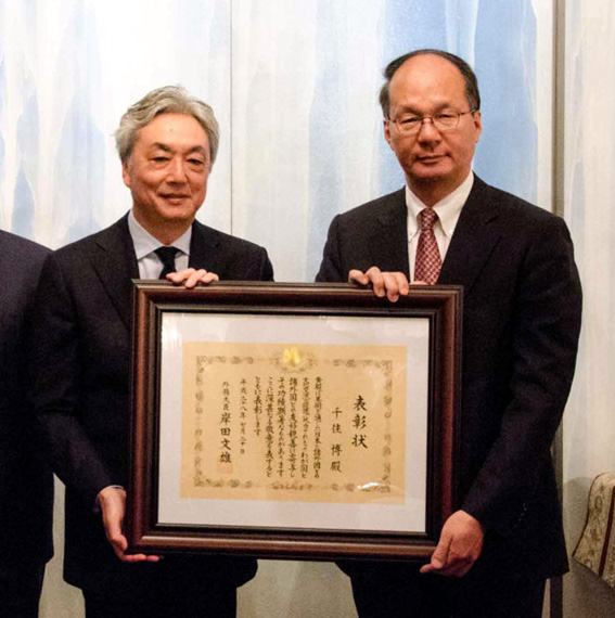 Reiichirō Takahashi, Consul General to New York, attended a commendation ceremony at the Consul General's Official Residence in New York on November 3, 2016. Hiroshi Senju, Director of Koyodo Museum of Art, Kyoto University of Art and Design, was given the Minister's Commendation from Takahashi.